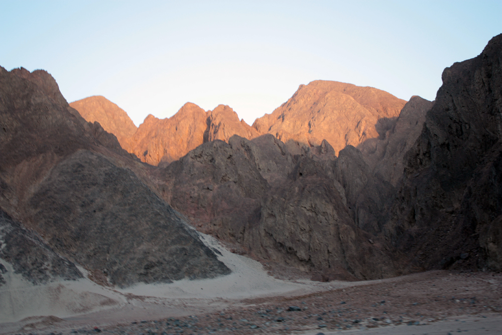 Eastern Desert mounain range close view